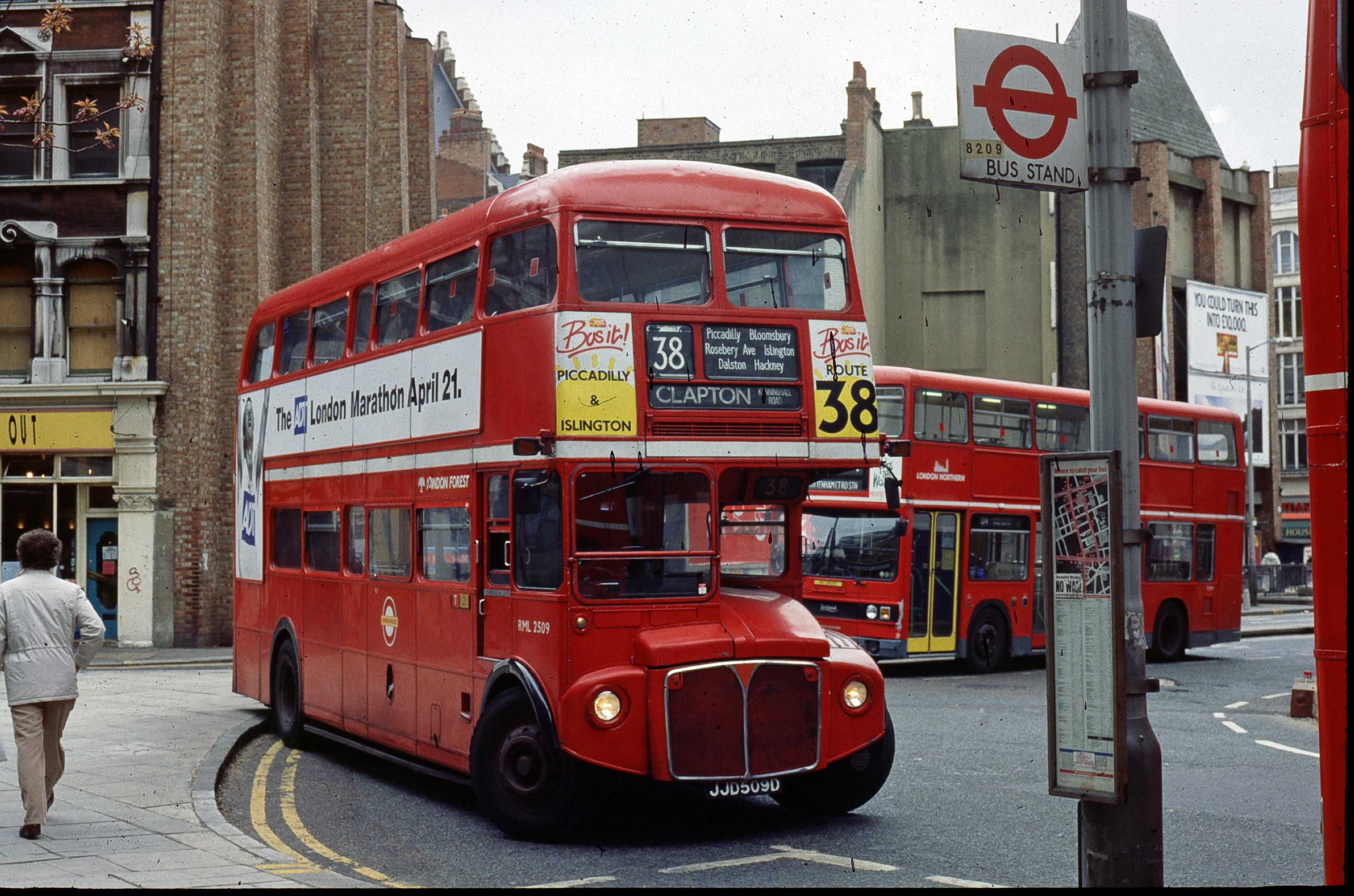 London Forest Routemaster RML2509 (JJD 509D) operating route 38 to Clapton Pond.